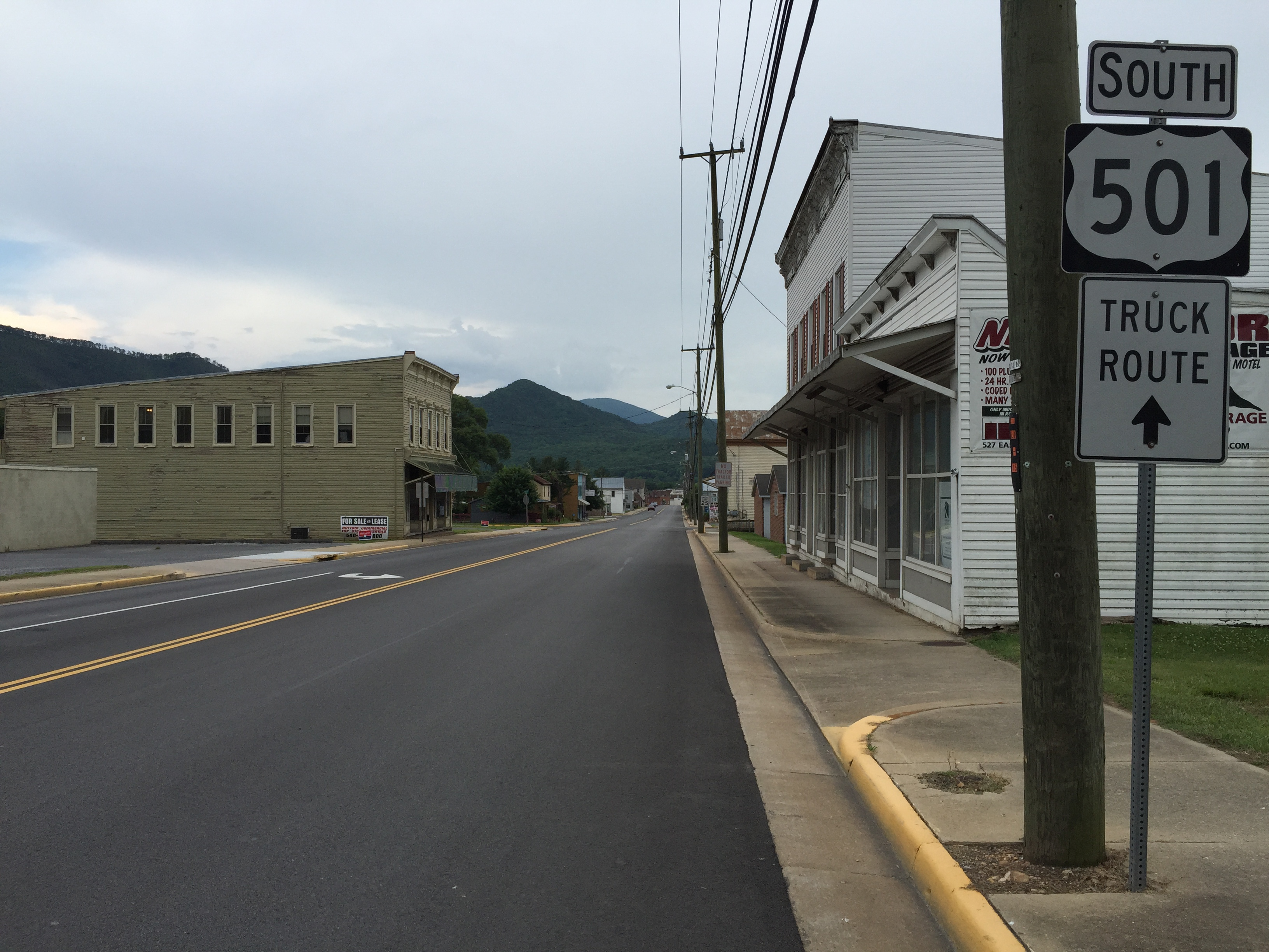 View south along U.S. Route 501 (Beech Avenue) at Factory Street in Buena Vista, Virginia